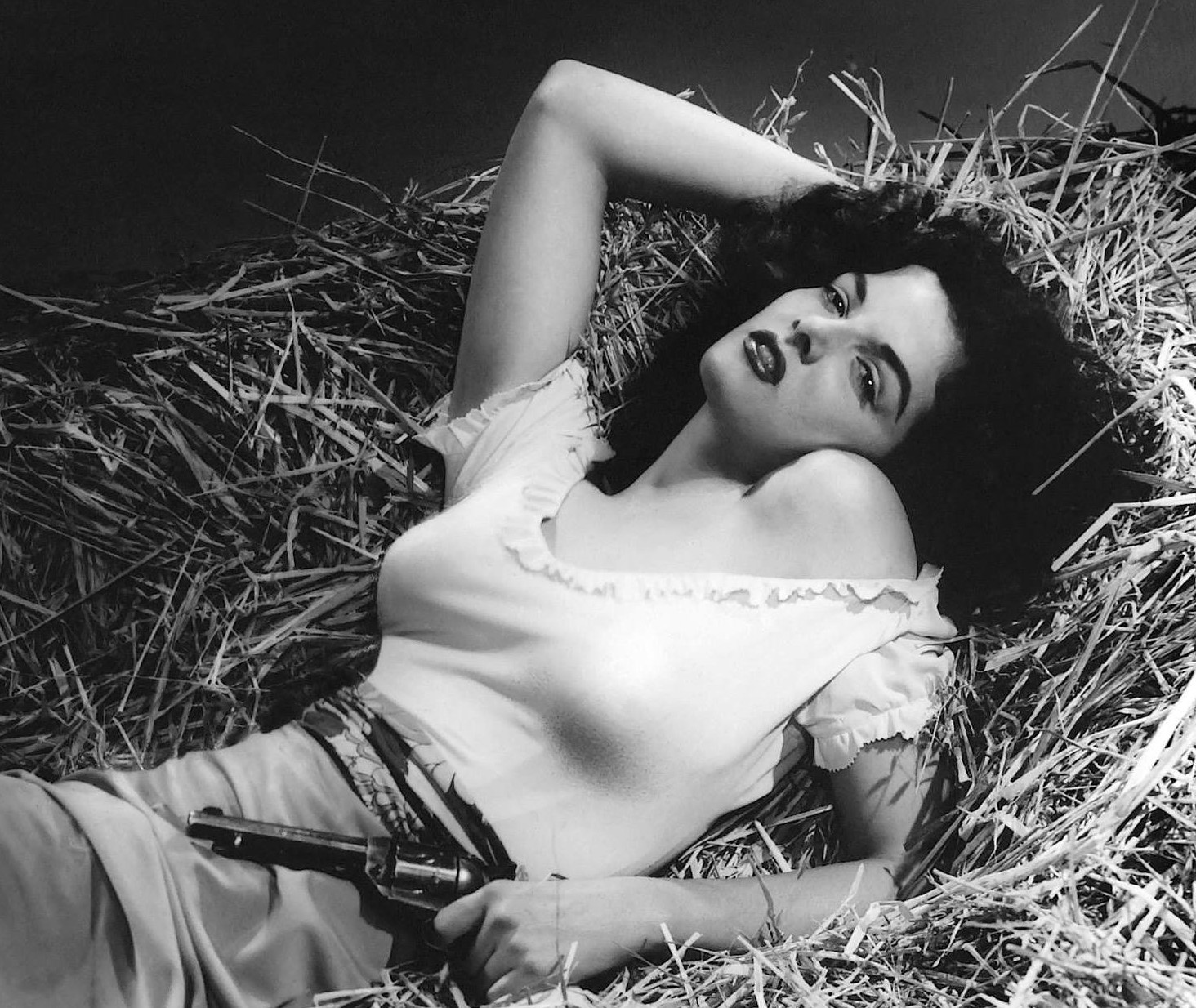 Cropped version of File:Jane Russell in The Outlaw.jpg